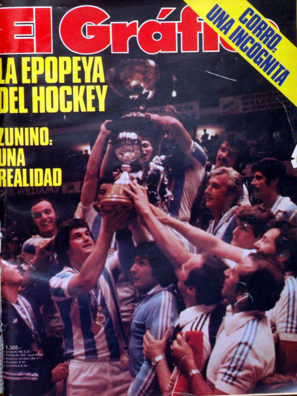 Players of Argentina national roller hockey team celebrating the championship won at the World Cup held in their country.